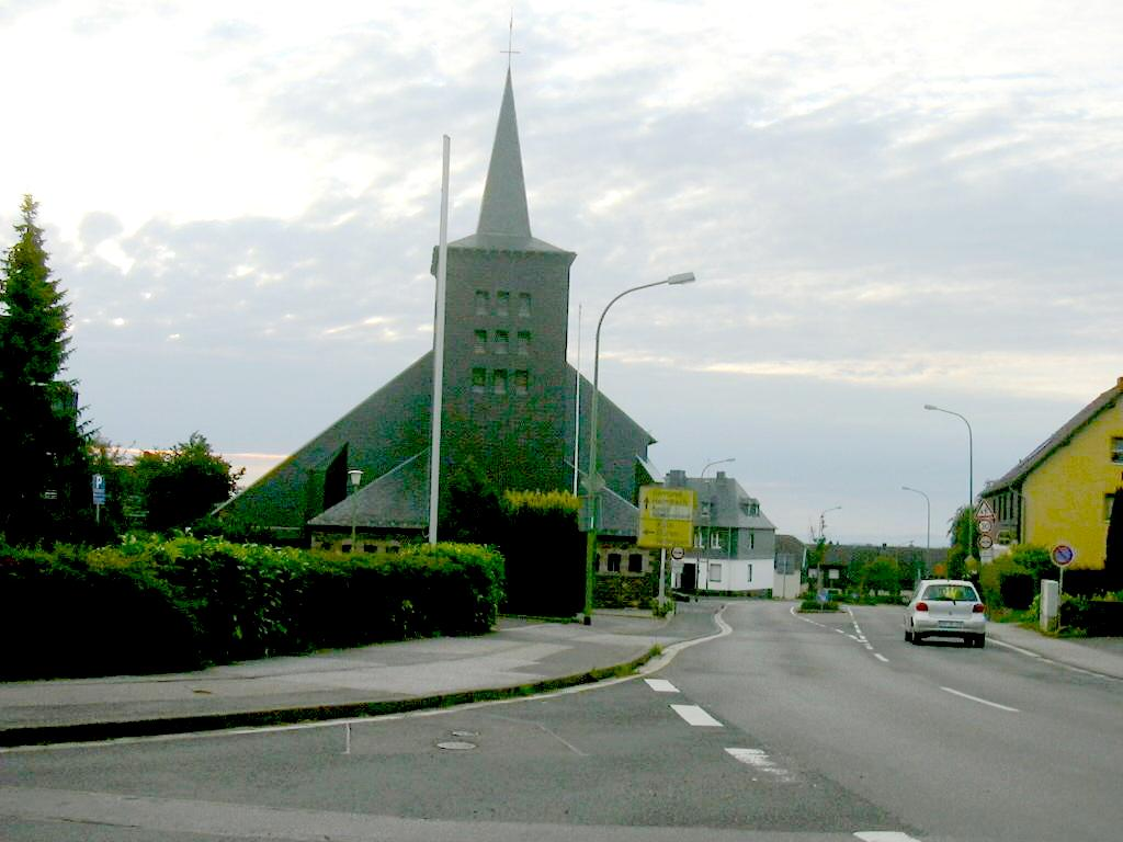 Schmidt (Nideggen), Kirche own work papa1234 2006-08-26